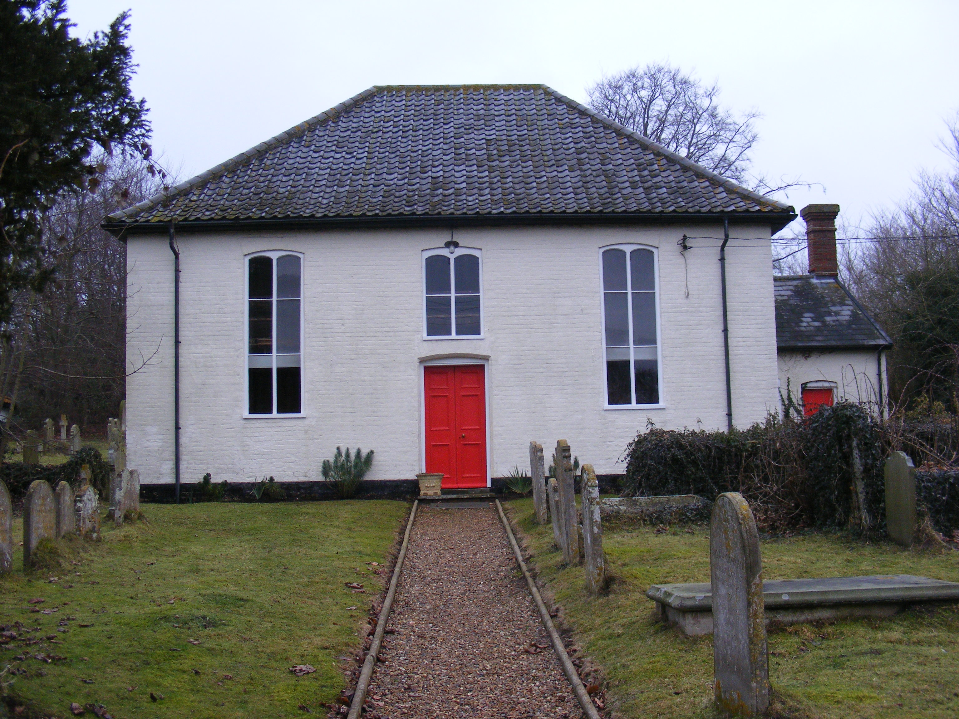 Wortwell United Reformed Church